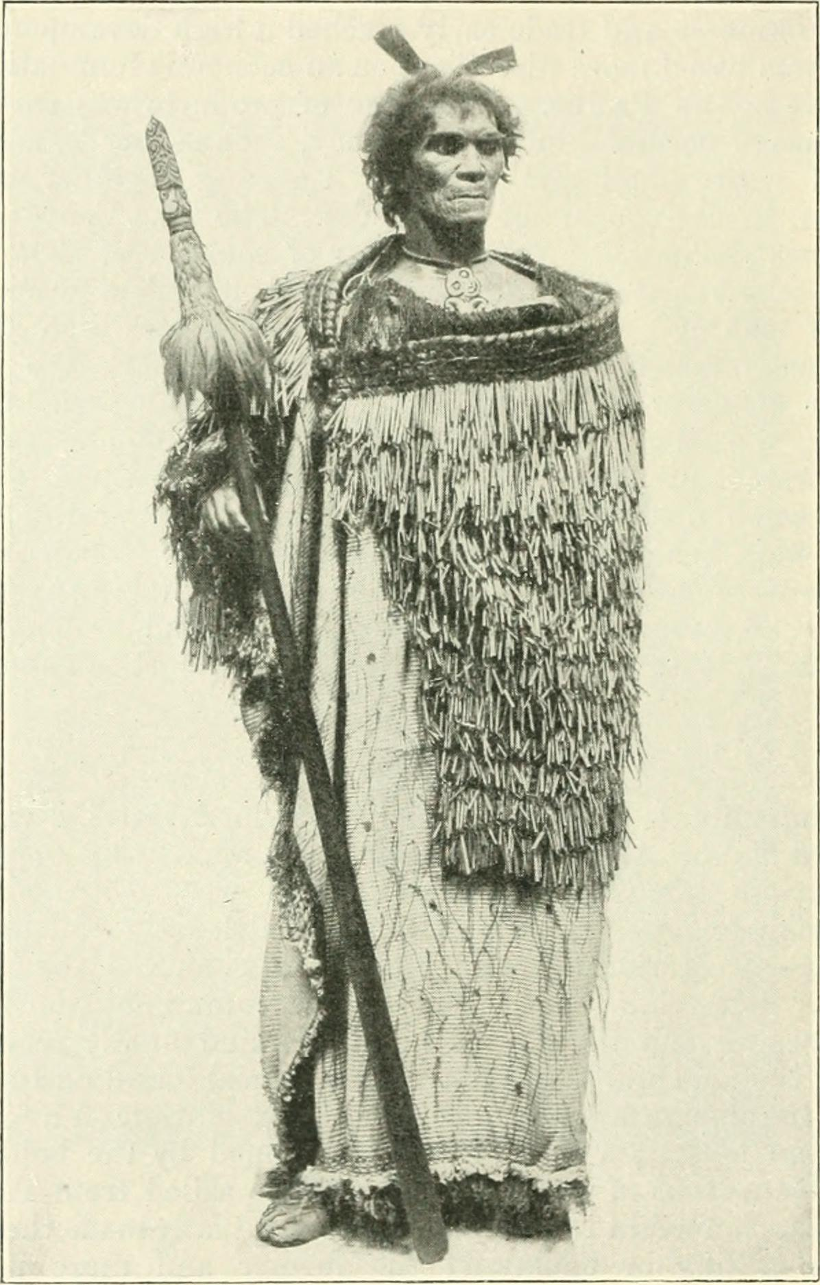 Title: Handbook to the ethnographical collections Year: 1910 (1910s) Authors: British Museum. Dept. of British and Mediaeval Antiquities and Ethnography Joyce, Thomas Athol, 1878-1942 Dalton, O. M. (Ormonde Maddock), 1866-1945 Subjects: Publisher: (London) : Printed by order of the Trustees Text Appearing Before Image: a colonizing expedition on a far largerscale than before ; a fleet of canoes manned by the boldest andmost adventurous of the Polynesian chiefs sailed fi-om Tahiti via,Raratonga, landed in New Zealand and eventually made themselvesmasters, killing or enslaving the former and more jjrimitivesettlers. One canoe returned, but from that year communicationbetween New Zealand and the rest of Polynesia was suspended.It is a matter of dispute whether New Zealand was ever inhabitedby Melanesians, but on the whole the evidence seems to be againstthe theory. This migration took place some time in the fourteenthcentury, and it is interesting to note that the New Zealandershave developed on lines ratlier different from tlie rest of thePolynesians. The less relaxing nature of the climate enabled 172 OCEANIA tliem to keep their energy unimpaired ; while the necessity ofconstructing more sul)stanli;il )i;ibit;itions and clothing, and ofexpending greater labour in provision of food, gave an impulse to Text Appearing After Image: Fig. 150.—Figure of a Maori chief wearing garments of woven liax, on hishead two huia feathers, and round his neck a jade tiki. In his hand is theweapon called liani or taiaha. New Zealand. the arts of invention and manufacture. Thus physically, in-tellectually and culturally they stand at the head of the Poly-nesian peoples. The clothes of the Maori were made almost entirely of flax tLAtK IX. ^;-*